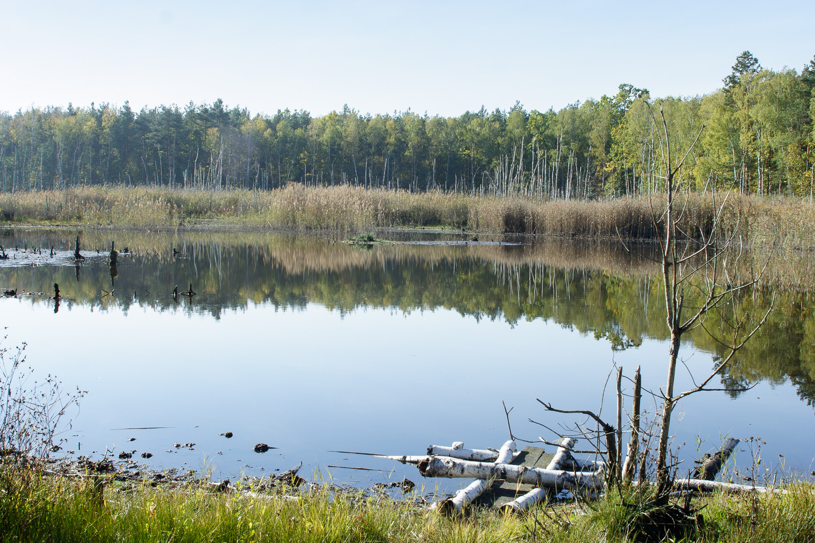 Macierowe Bagno (a swamp), the largest reservoir. Autumn, low water level. Stara Miłosna, Wesoła, Warsaw, Poland. This is a photography of protected area with CRFOP ID PL.ZIPOP.1393.PK.72